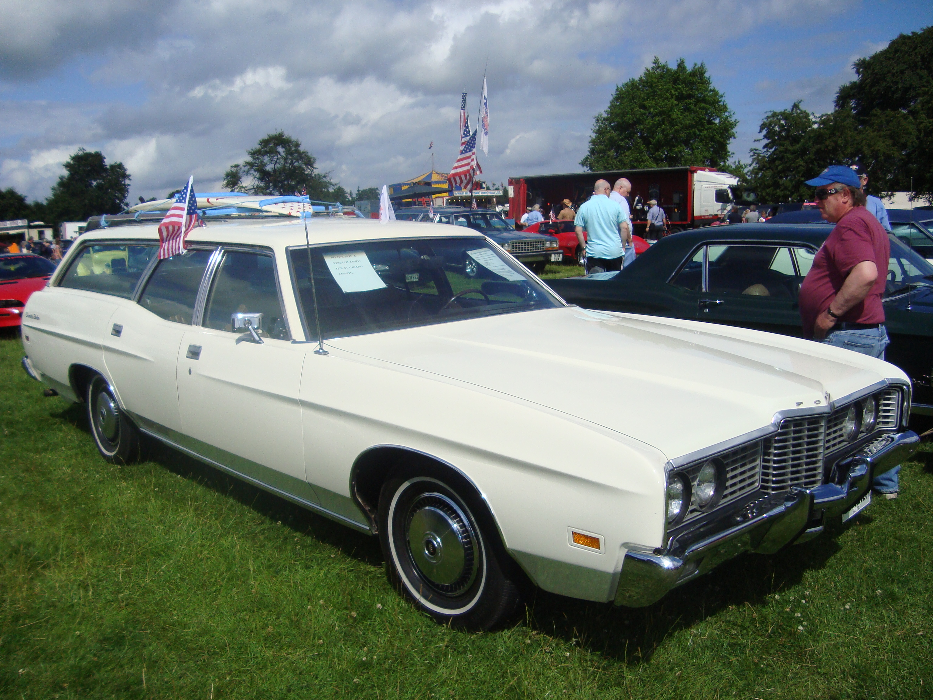 1972 Ford Galaxie Station Wagon